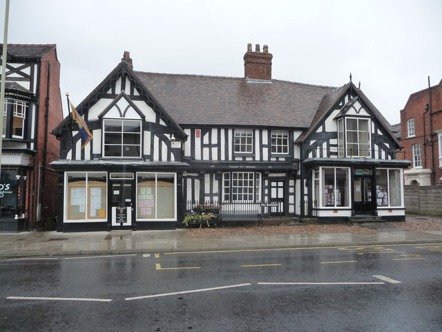 The Guildhall, Newport, Shropshire